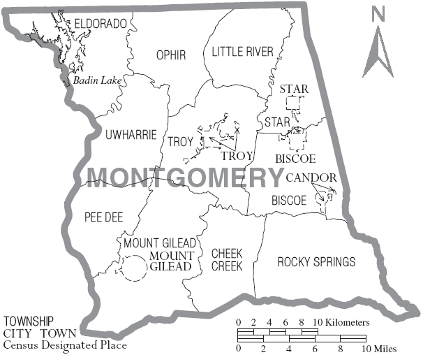 Map of Montgomery County, North Carolina, United States with township and municipal boundaries